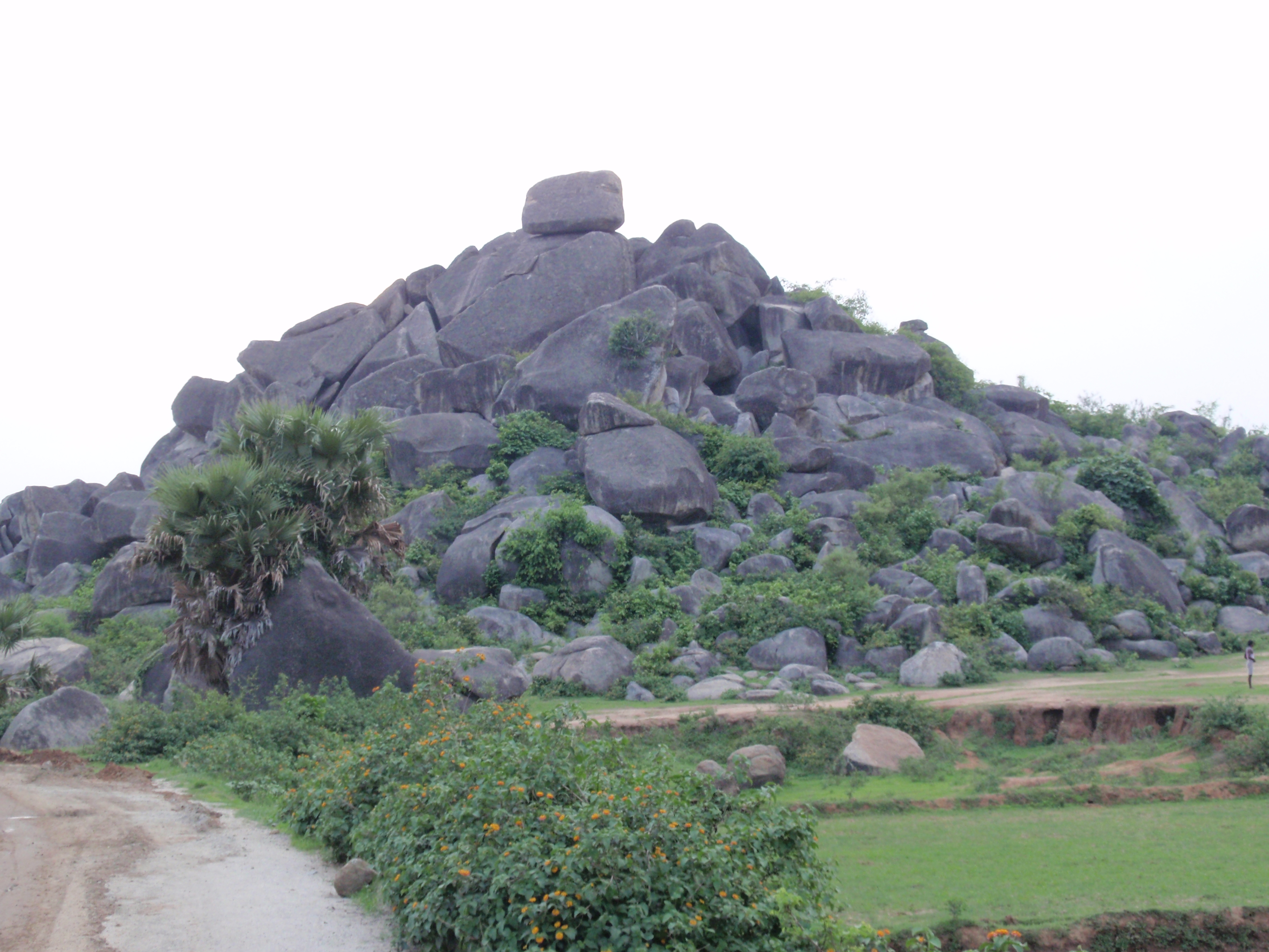 This is most popular hill station.